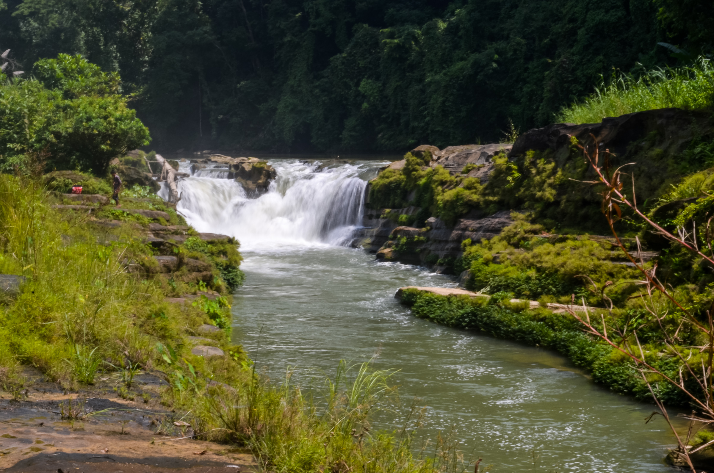 Nafakhum waterfalls, Bandarban, Bangladesh.